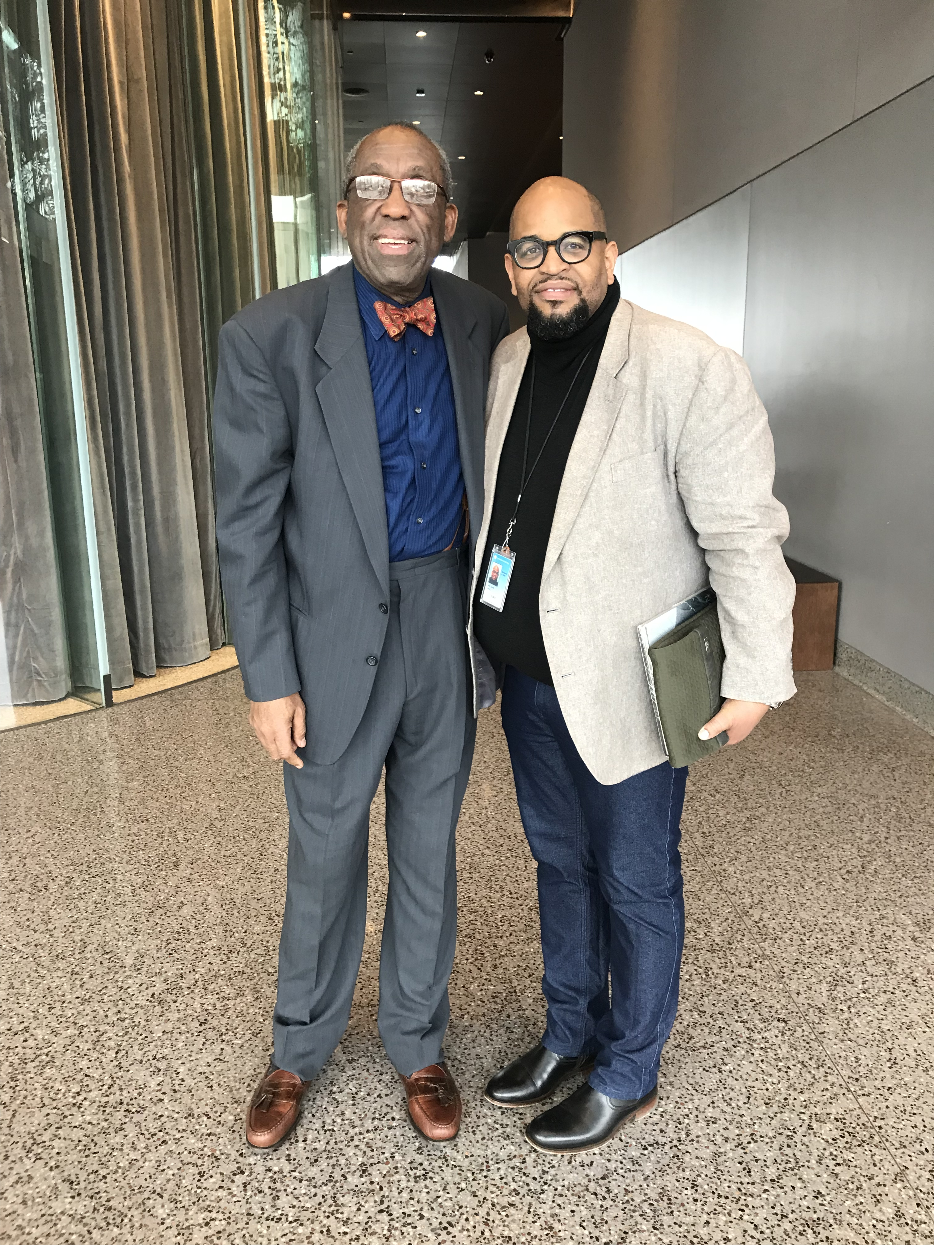 Bob Gore, Abyssinian Baptist Church Photographer on the left and Dr. Eric Williams, Curator of Religion National Museum Of African American History and Culture at NMAAHC in Washington, DC after a meeting at NMAAHC